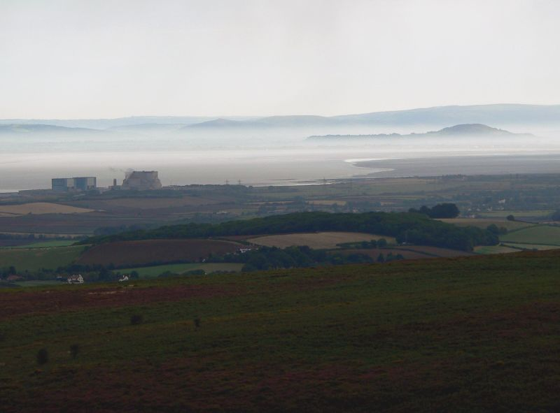 Hinkley Point nuclear power stations and Brent Knoll rising from the morning mist, seen from the nearby Quantock Hills